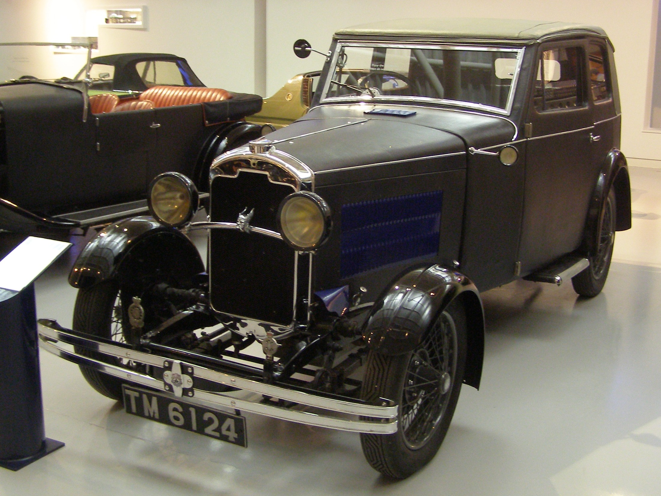 The Blue Train 1929 Rover Light Six 2-door 4-seater coupé with Weymann fabric body TM6124 first reg 31 December 1929, 2023 cc at the Heritage Motor Museum, Gaydon, EnglandPLEASE NOTE this is the actual car that leaving on 27 January 1930 travelled from St Raphael on the Riviera through narrow winding roads to Calais in 20 hours. An average of 38 mph for 750 miles. The little Rover beat the Blue Train by 20 minutes